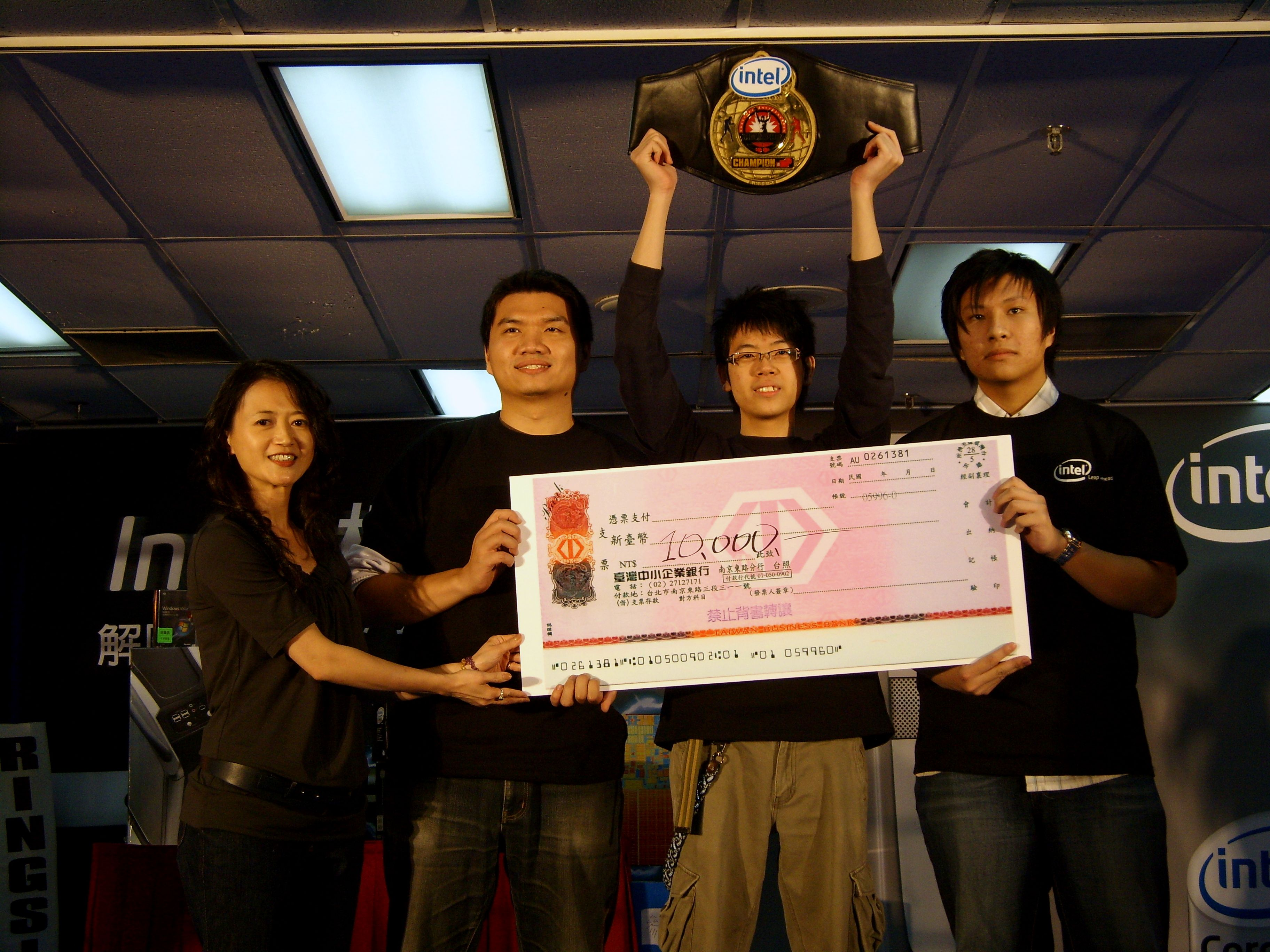 2007 Taipei IT Month: The Champion of Intel Taiwan Overclocking Live Test.